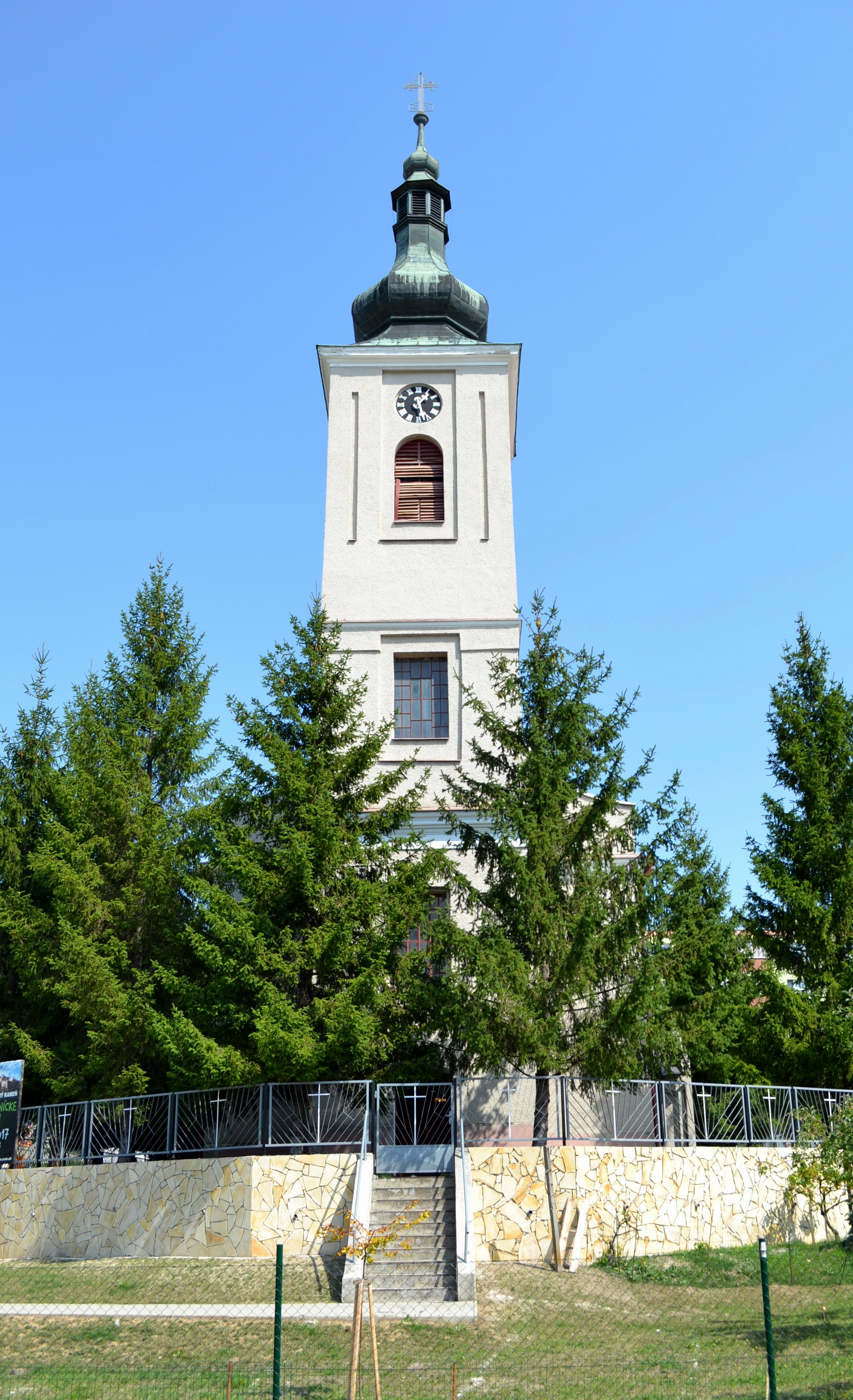 Lutheran Church in Veľký Krtíš